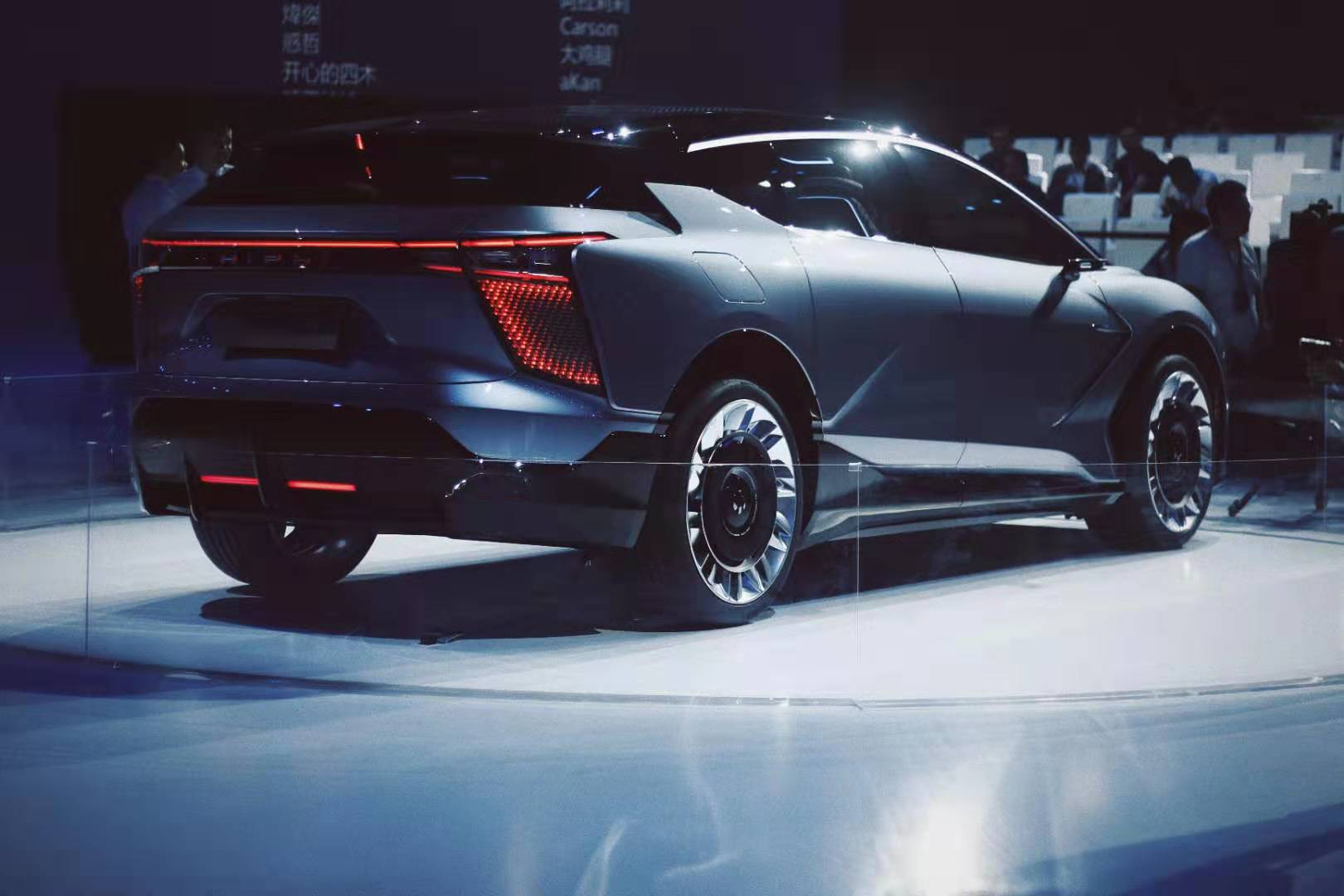 HiPhi 1 by Human Horizons